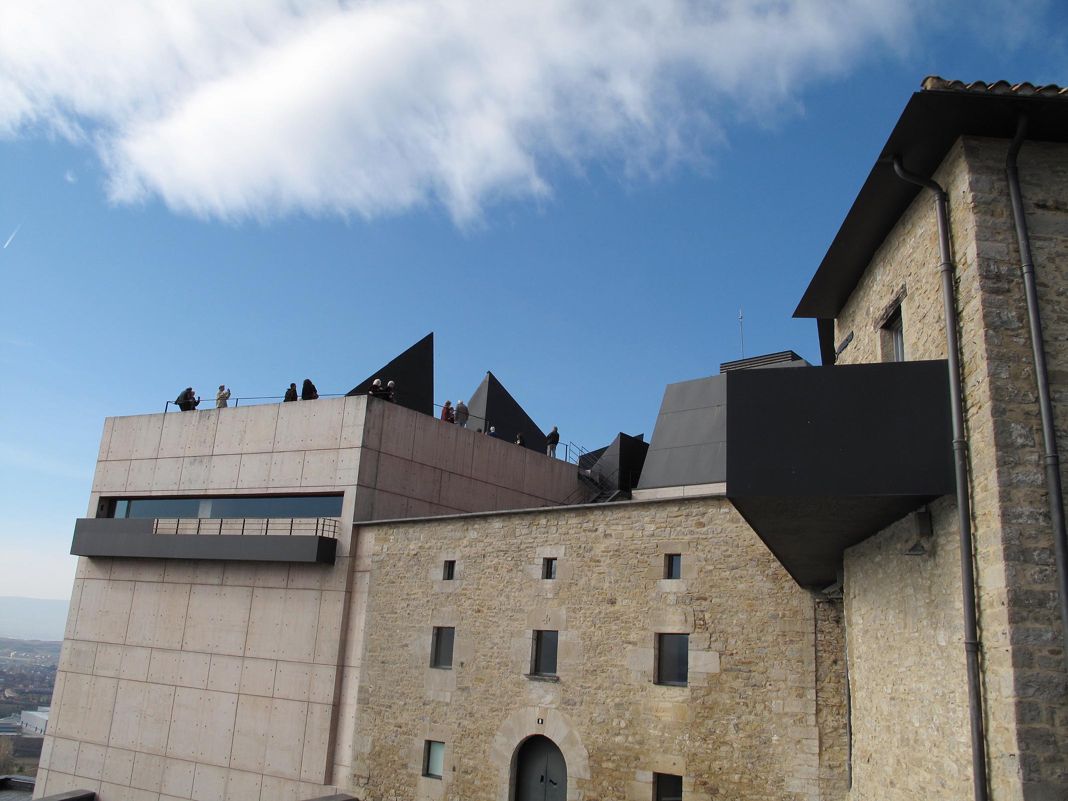 Jorge Oteiza Museum (Fundacion Oteiza), - Spain, Alzuza, on top of the museum